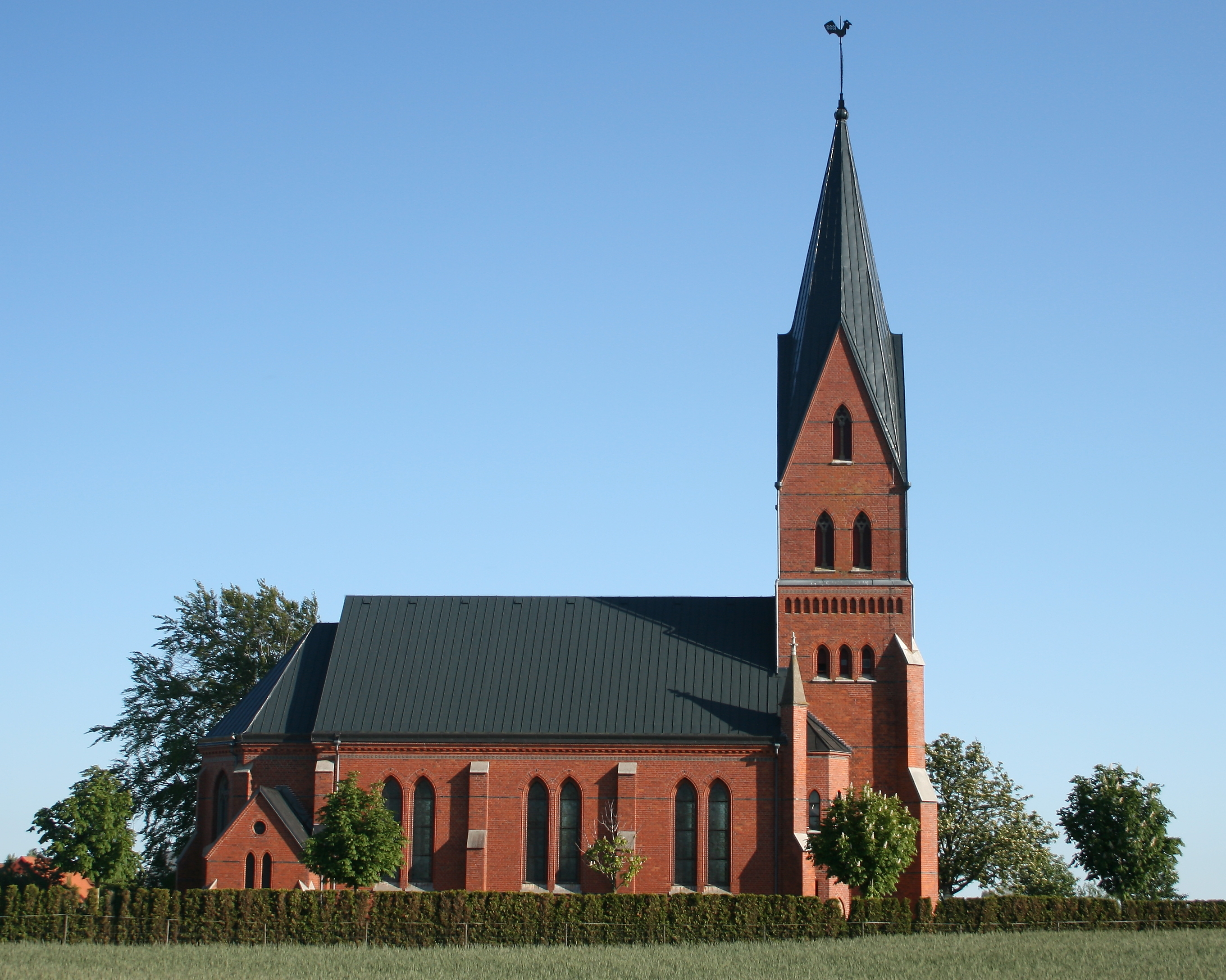 Gessie Church in Gessie village, Vellinge Municipality, Skåne, Sweden.